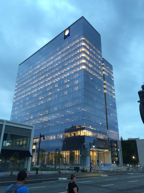 Night view of new Prudential Tower in Newark